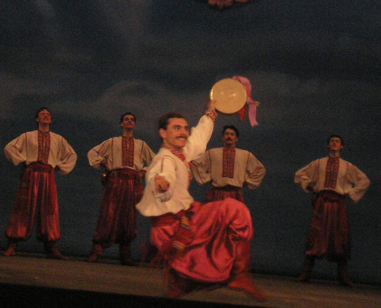 P. Virsky Ukrainian National Folk Dance Ensemble. Performens in Donetsk. April 30. 2006